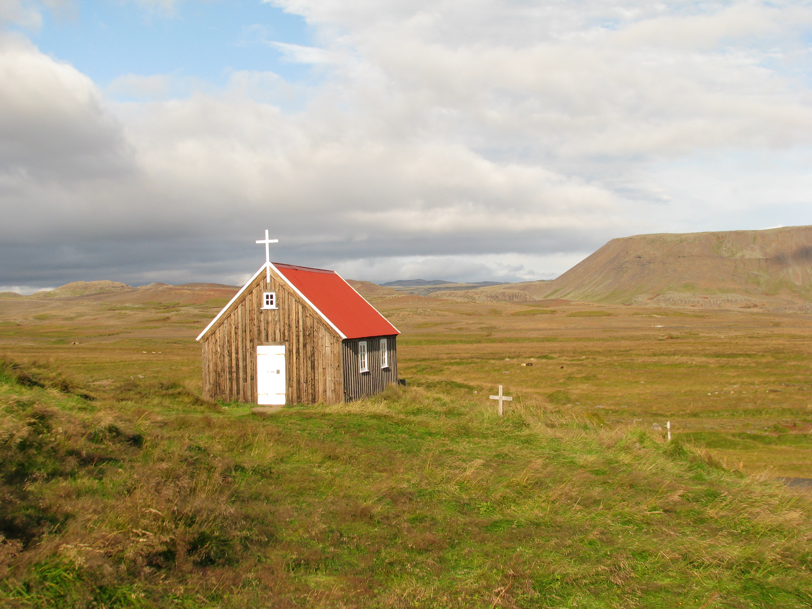 Church in Iceland, building in Iceland